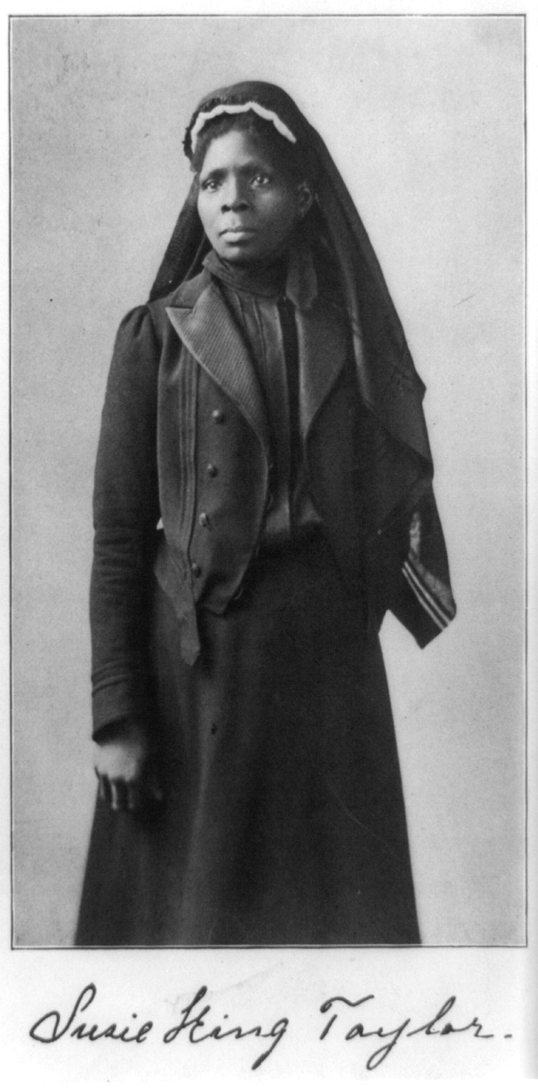 Title: Susie King Taylor Abstract/medium: 1 photomechanical print : halftone.